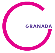 Logo of Granada PLC.